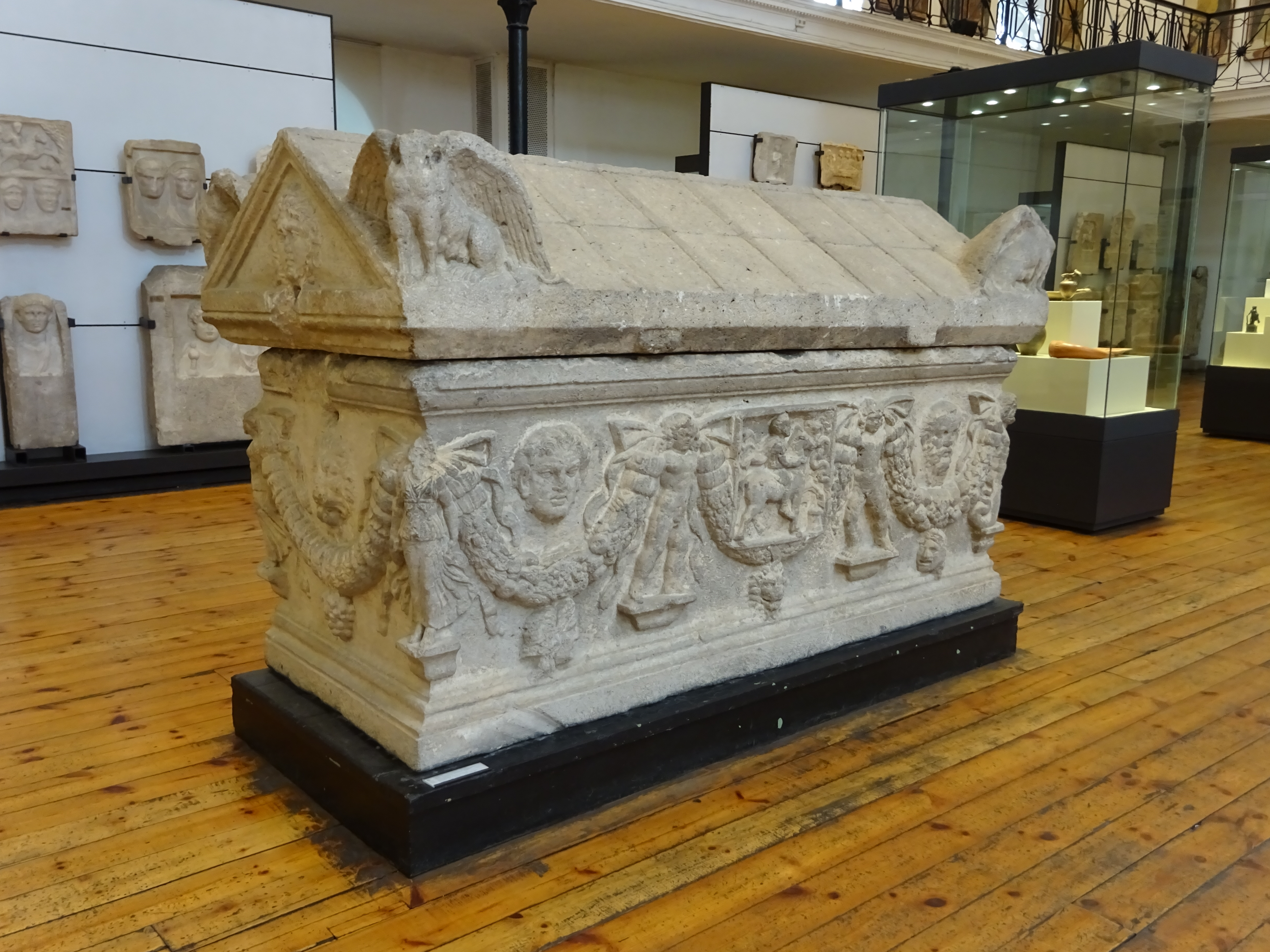 Sarcophagus. Heros horseman, garlands, genii of death, giants, victorias, masks. Archar (Ratiaria), Vidin district. Second half of 2nd Century